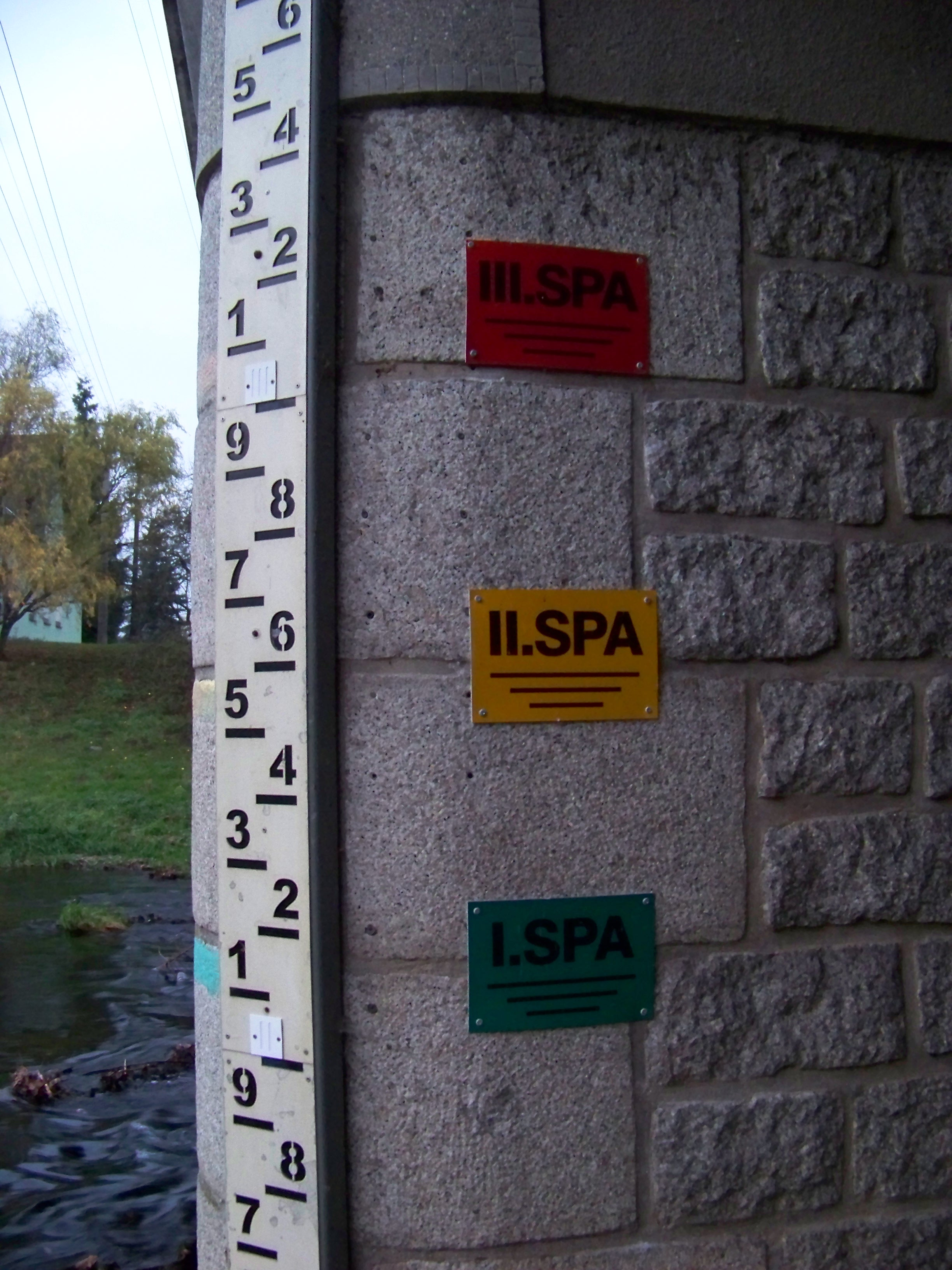 Olomouc-Chomoutov, Olomouc District, Olomouc Region, Czech Republic. Dalimilova – Štěpánovská, a bridge over the Morava river, a stream gauge.